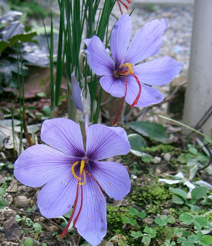 Crocus sativus, taken in Osaka-fu, Japan